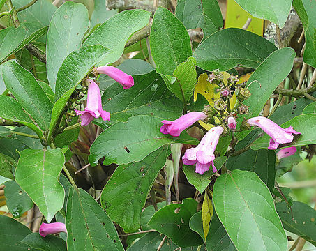 A widespread species in the Neotropics. Photo from near Baeza, Ecuador.